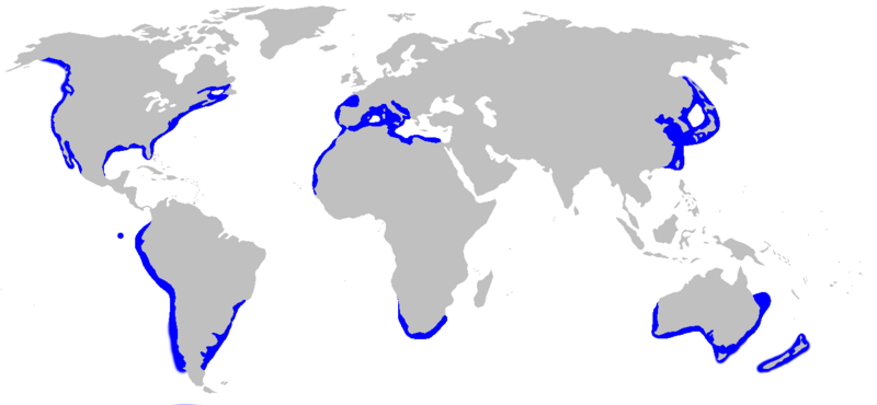 Distribution map for Carcharodon carcharias